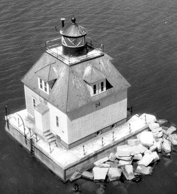 The Long Tail Point Light, seen from the air.